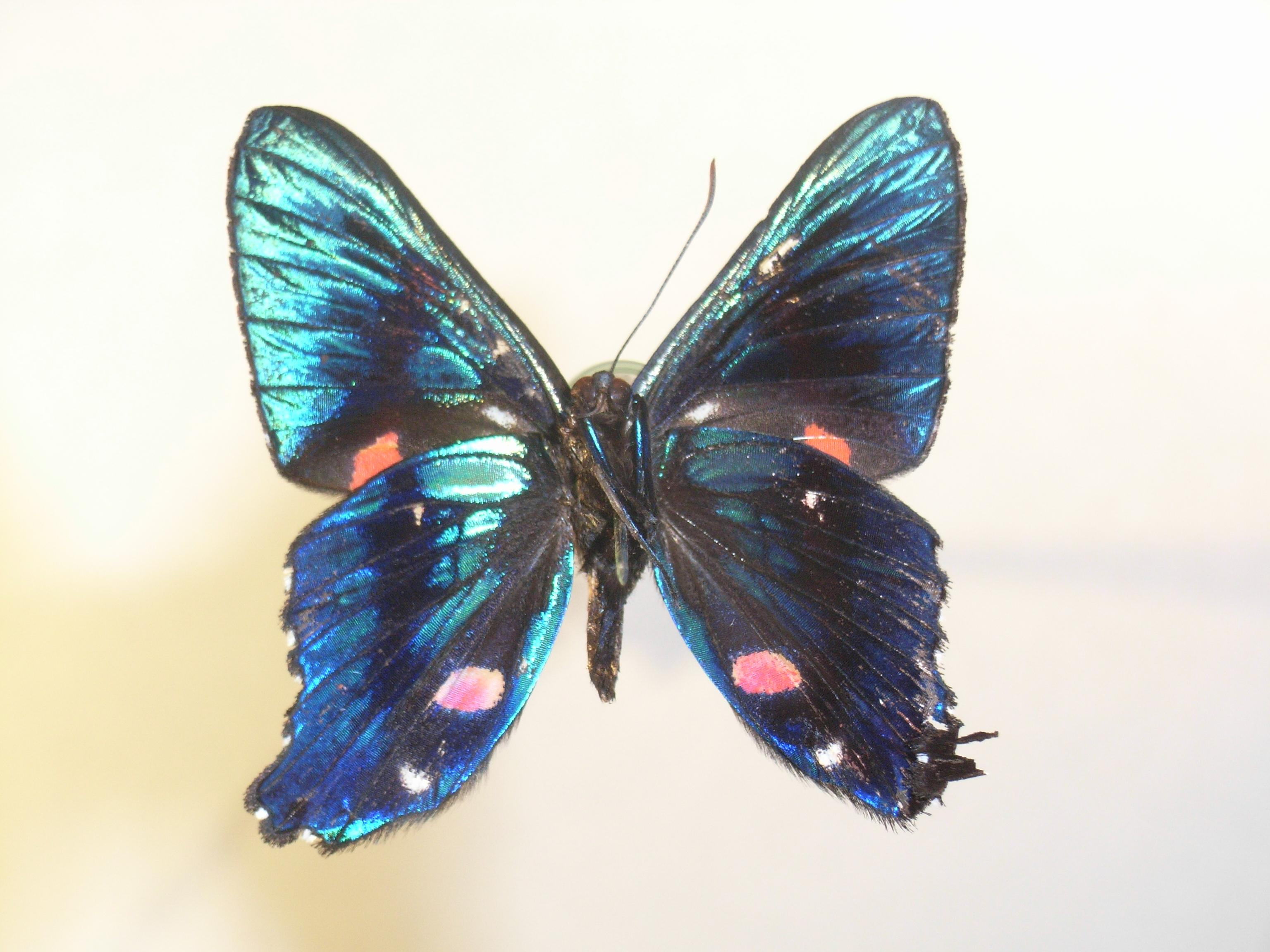 Ancyluris melebaeus:Riodinidae Underside